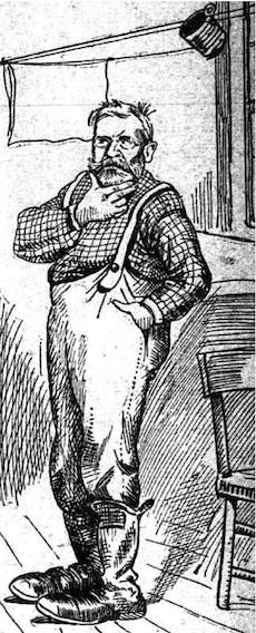 Detail of cartoon of Sir William Mulock dressed as a farmer